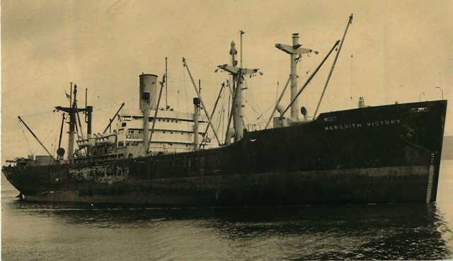 SS Meredith Victory at sea